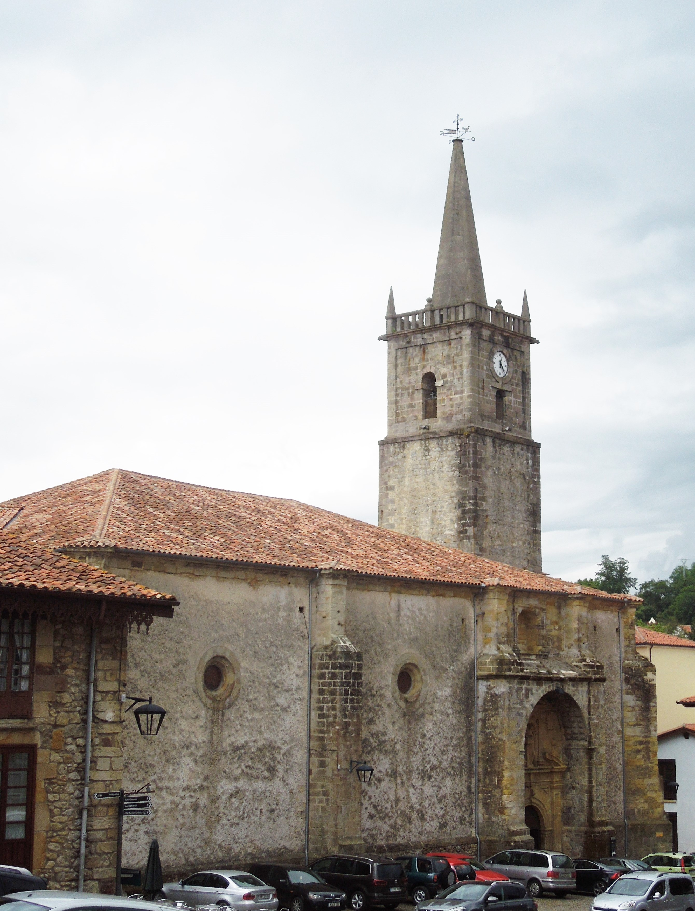 Church San Christobal in Comillas, Spain